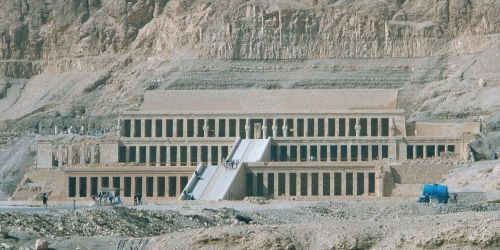 Memorial Temple of Pharaoh Hatshepsut, Deir el Bahari, West Thebes